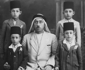 General Commander of the 1936-39 Arab revolt in Palestine, Abd al-Rahim al-Hajj Muhammad with his four sons Kamal, Abd al-Jawad , Abd al-Karim and Jawdat.